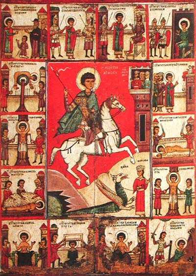 St. George, and scenes from his life